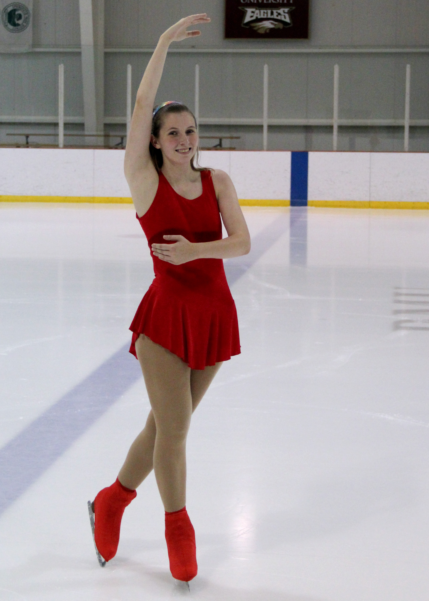 Erin Hart, a senior at Pleasant Hill High School and daughter of Air Force Master Sgt. Rawnald Hart, 58th Airlift Squadron C-17 Globemaster III Loadmaster instructor at Altus Air Force Base, Okla. and Mrs. Kathy Hart, takes a break from practice to pose for a picture at the Springfield Nelson Center Ice Skating Rink. Erin, who has mid-to-high functioning autism, started figure skating lessons approximately one year ago, and will be one of 11 athletes to compete in the Special Olympics World Winter Games in Pyeong Chang, South Korea scheduled for Jan. 29, to Feb. 5, 2013. (Courtesy photo)